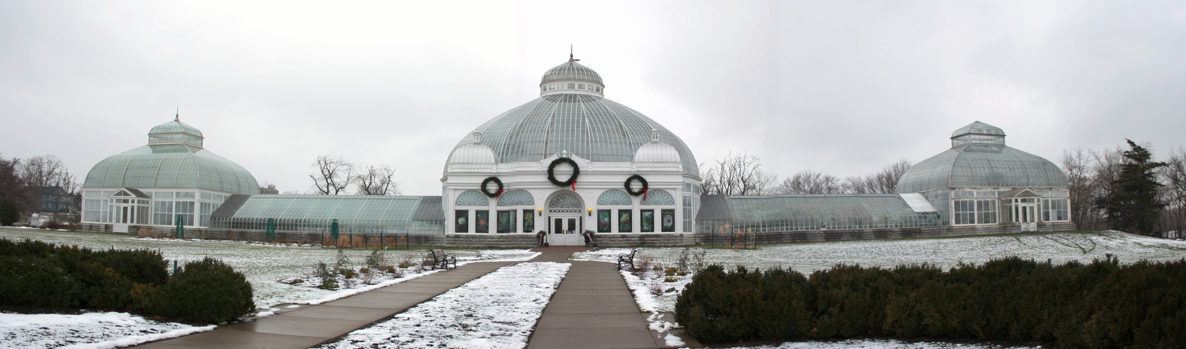 The Buffalo and Erie County Botanical Gardens. Image assembled from 3 photos with Canon PhotoStitch.